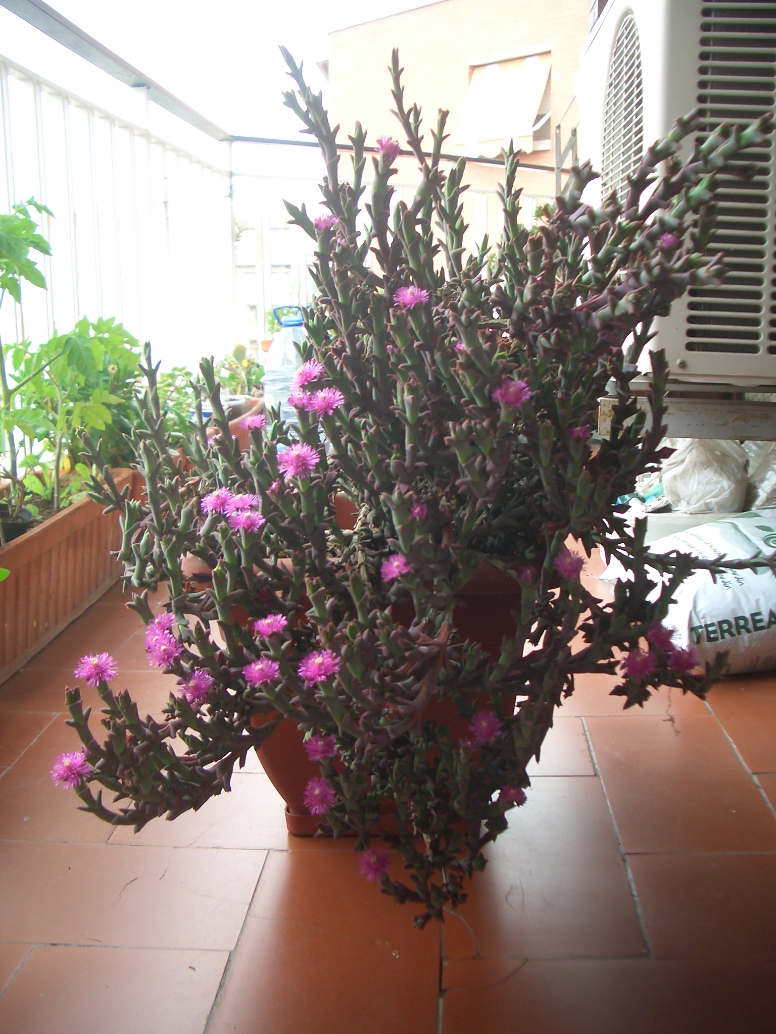 Smicrostigma viride with flowers